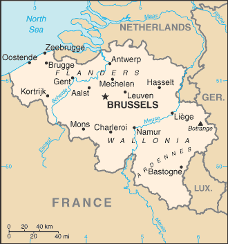 Belgium map from CIA World Factbook (since 4 December 2005), converted from original GIF format